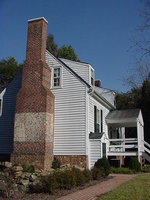 Image taken by Anne Wilson of the Society of the Descendants of Peter Francisco; she has allowed its use on Wikipedia